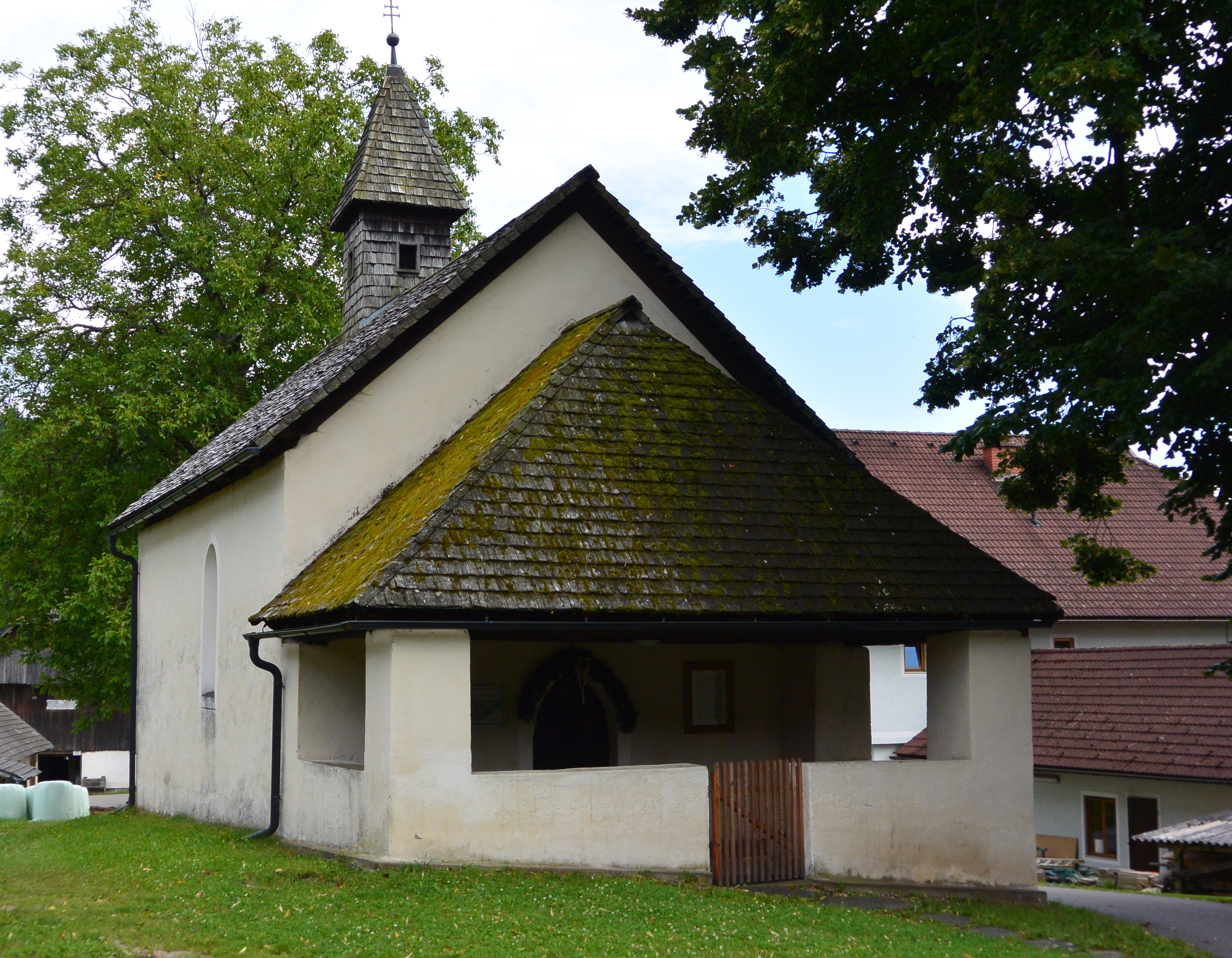 Church Sankt Jakob ob Ferndorf in the community of Ferndorf